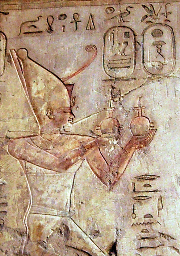 Psammetichus I adoring Ra-Harakhte - Pabasa's tomb in the Theban Necropolis - 26th dynasty of Egypt. Using the milk-jug hieroglyph in text in front of Pharaoh, (and two milk jugs in hands): "Making (offering of) Milk"